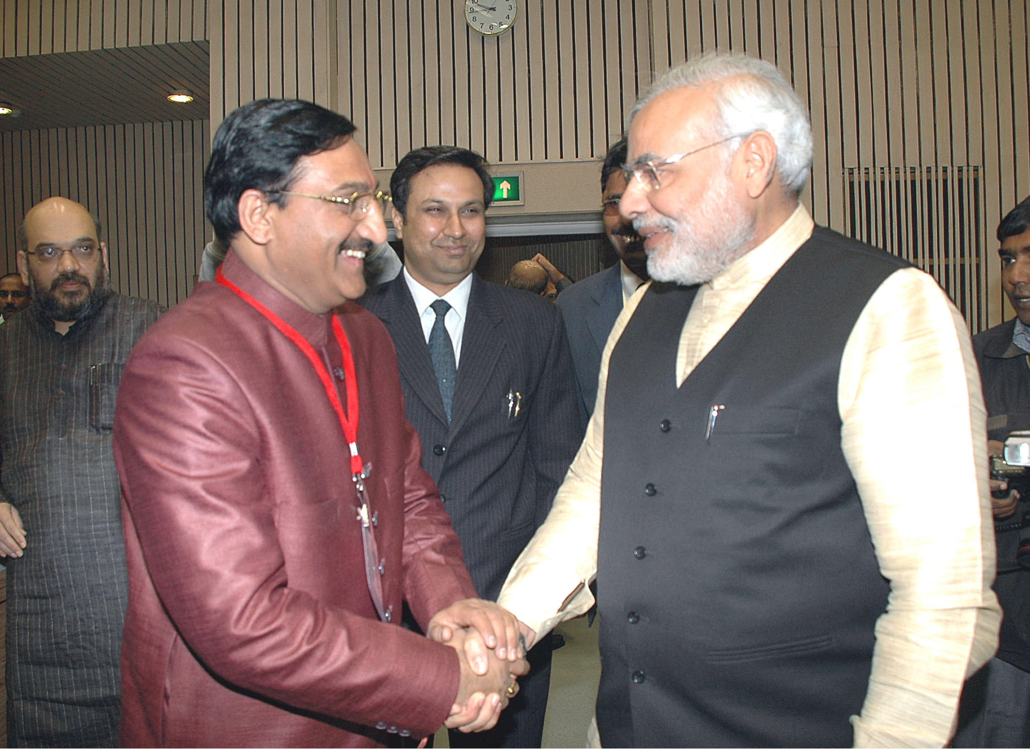 डॉ निशंक वर्तमान प्रधानमंत्री माननीय नरेंद्र मोदी जी के साथ